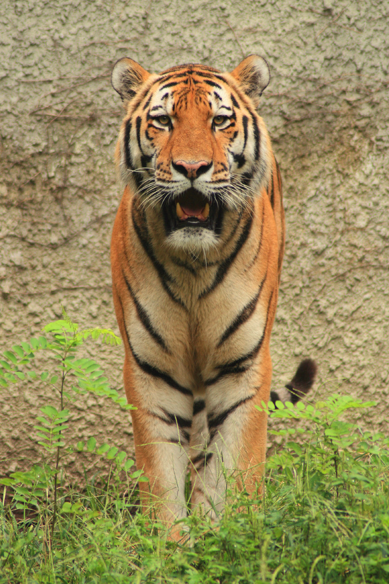 Amur (Siberian) tiger in Tennoji zoo